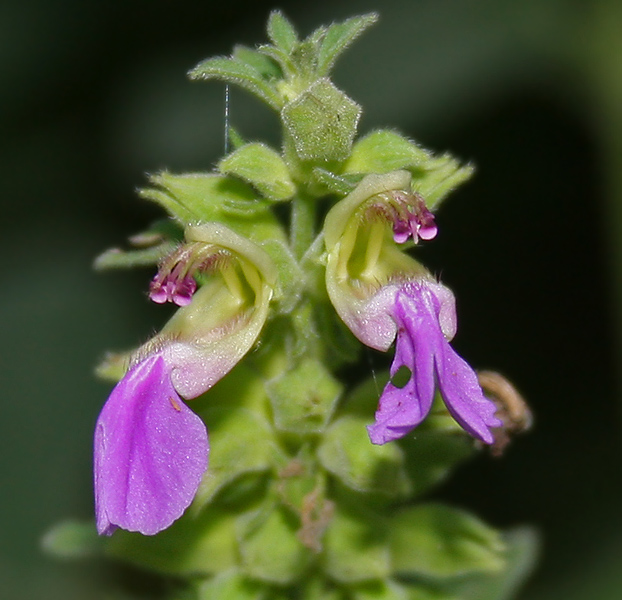 MALABAR CATMINT, Indian Catmint, Chodhara, Gopali, KABLING-PARANG or Kala bhangra Anisomeles indica in Narsapur, Andhra Pradesh, India.